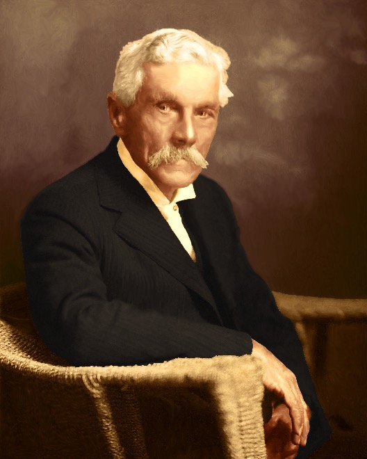 Stephen French in 1920. From a photograph in possession of subject's great-great grandson Greg Lawrance. Unknown photographer, taken before 1923.